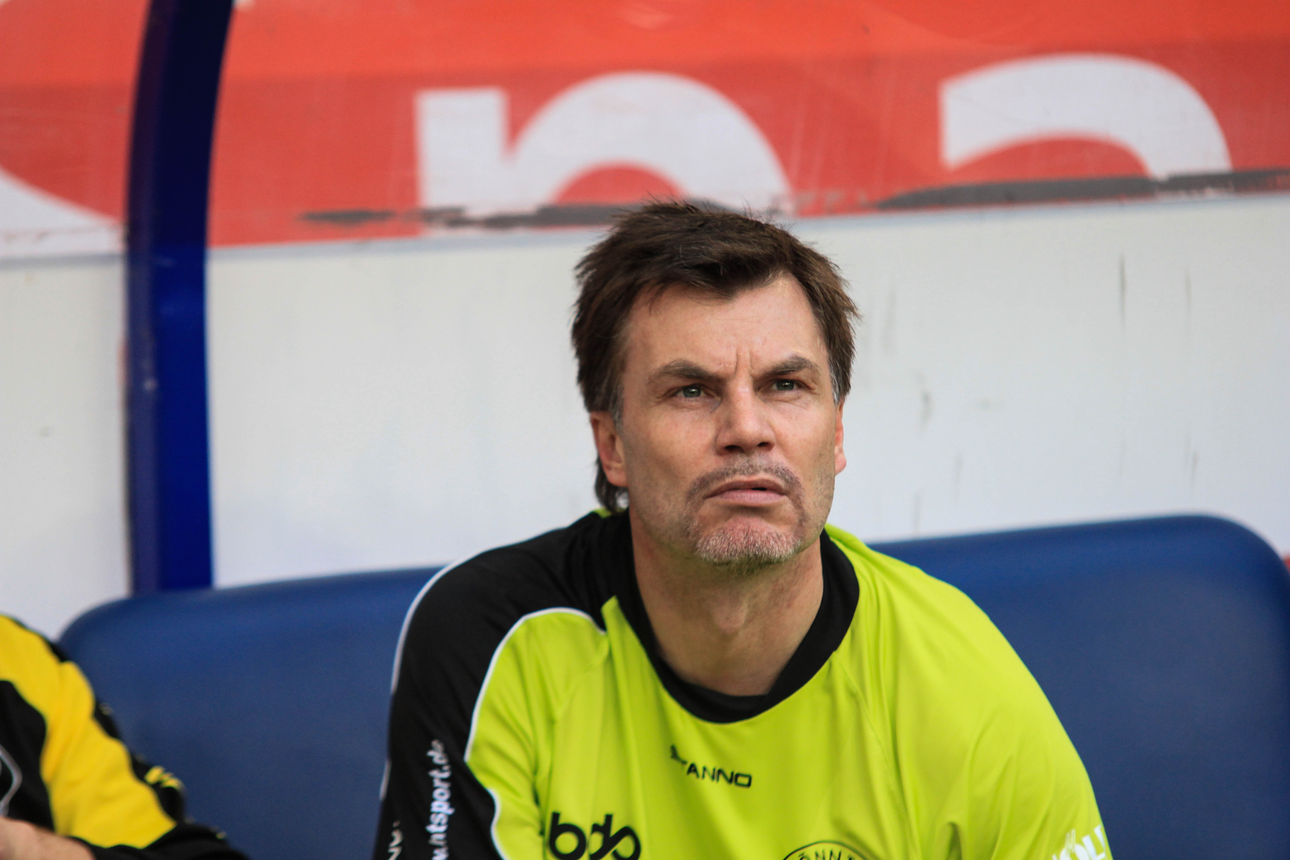 Former German footballer Thomas Helmer at the benefit match "Tönnies and Friends versus MSV-Traditionself", May 2012